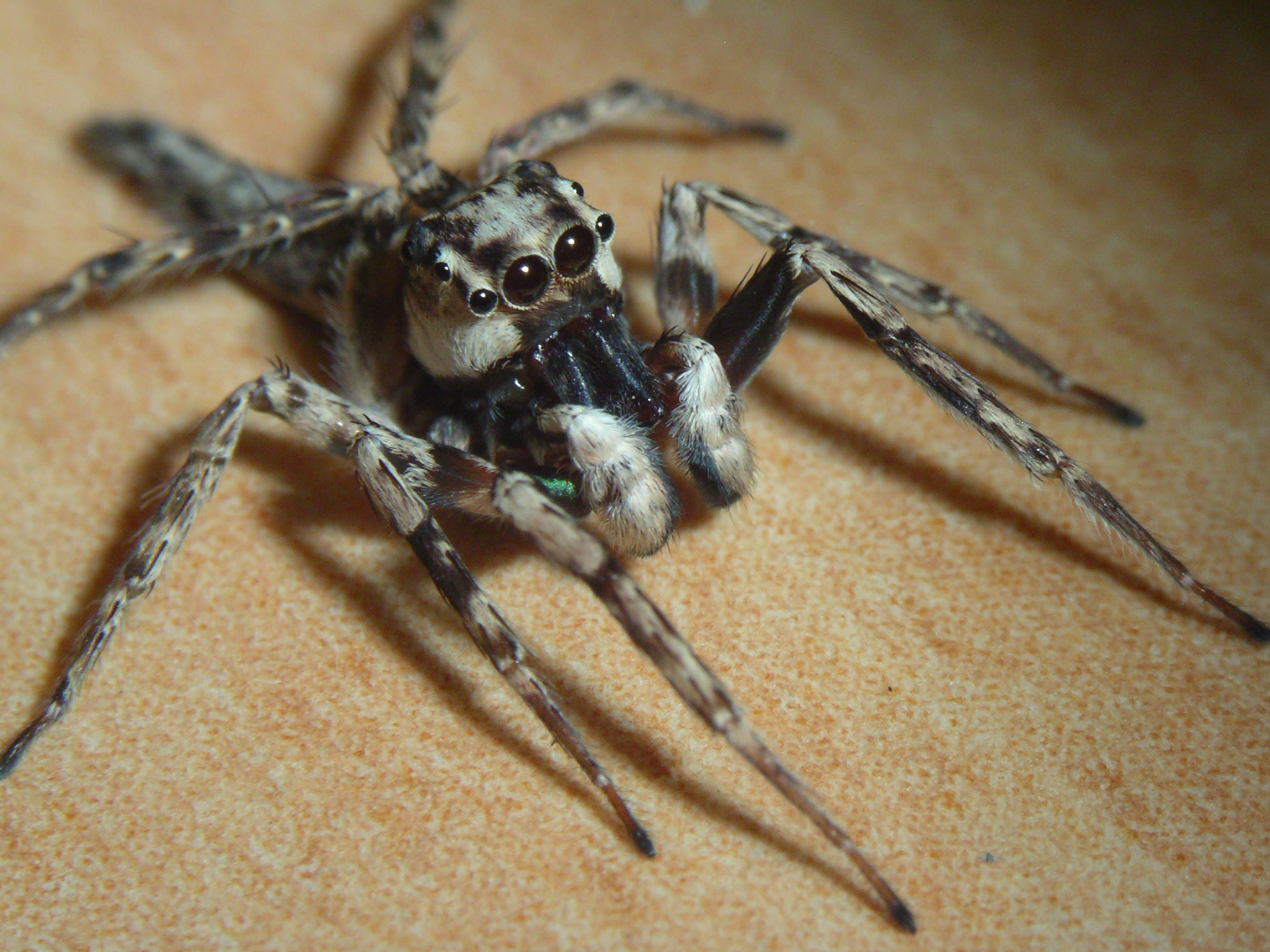 Cocalus male (SGM05-3088) — SINGAPORE: Lim Chu Kang Mangroves 1.44 °N 103.70 °E